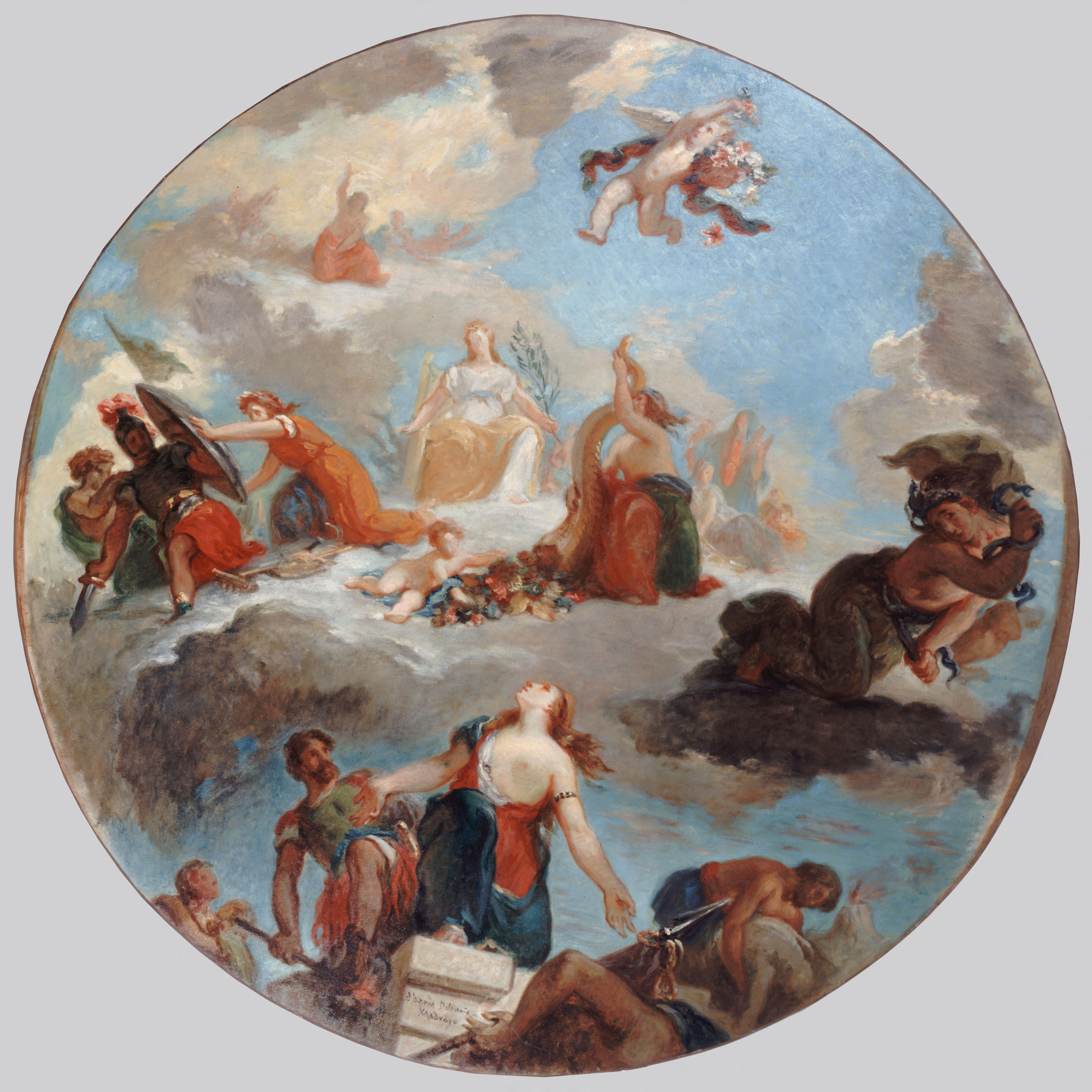 Creator(s): - Madrazo y Garetta, Raimundo de (en 1841 - en 1920), peintre - Delacroix, Eugène (Saint-Maurice, 26–04–1798 - Paris, 13–08–1863), auteur du modèle Production date: Before 1871 Century: XIX century Object type(s): Painting Type(s): Painting Dimensions: Diamètre : 167 cm Description: Circular painting. Markings, inscriptions, punches: Signature - Bottom center, on the base: "After Delacroix / Madrazo". Iconographical description: Peace comes to console men and brings them Abundance. Reduced copy of the central part of the ceiling of the Peace Hall of the Hôtel de Ville, painted by Delacroix and disappeared in the fire of 1871. Allegory. Cybele, Discord with snakes, Mars with shield and sword, Furies, Ceres, crowned with spikes. Cornucopia. Olive branch, Love, crown of flowers, Jupiter Historical background: The decorative paintings by Delacroix for the Salon de la Paix were executed between 1852 and 1854. They were destroyed on May 24, 1871, during the fire at the Hôtel de Ville (Paris Commune). Acquisition name: Madrazo (Madame) Acquisition date: 1936 Museum number: P1882 Institution: Musée Carnavalet, Histoire de Paris